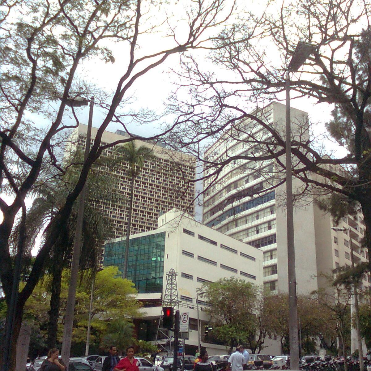 UFMG's Law School